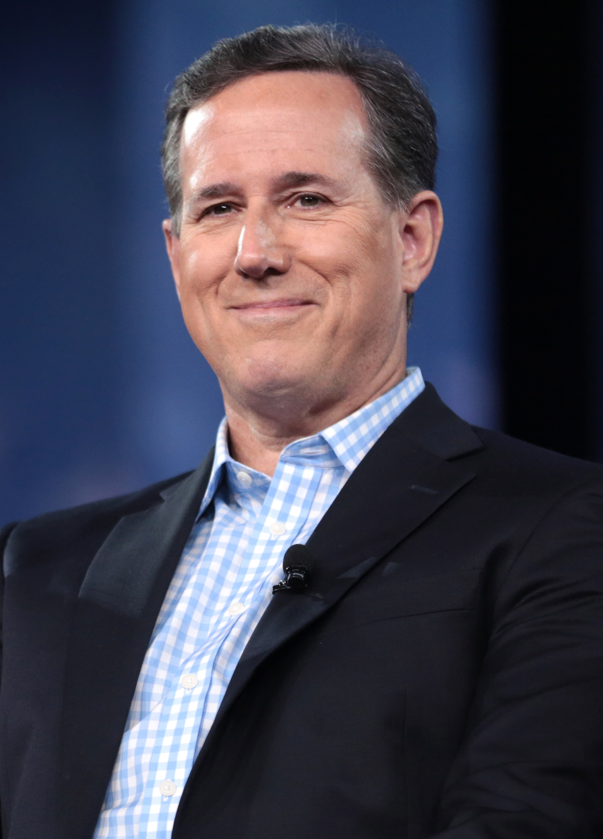 Rick Santorum speaking at the 2017 CPAC in National Harbor, Maryland.